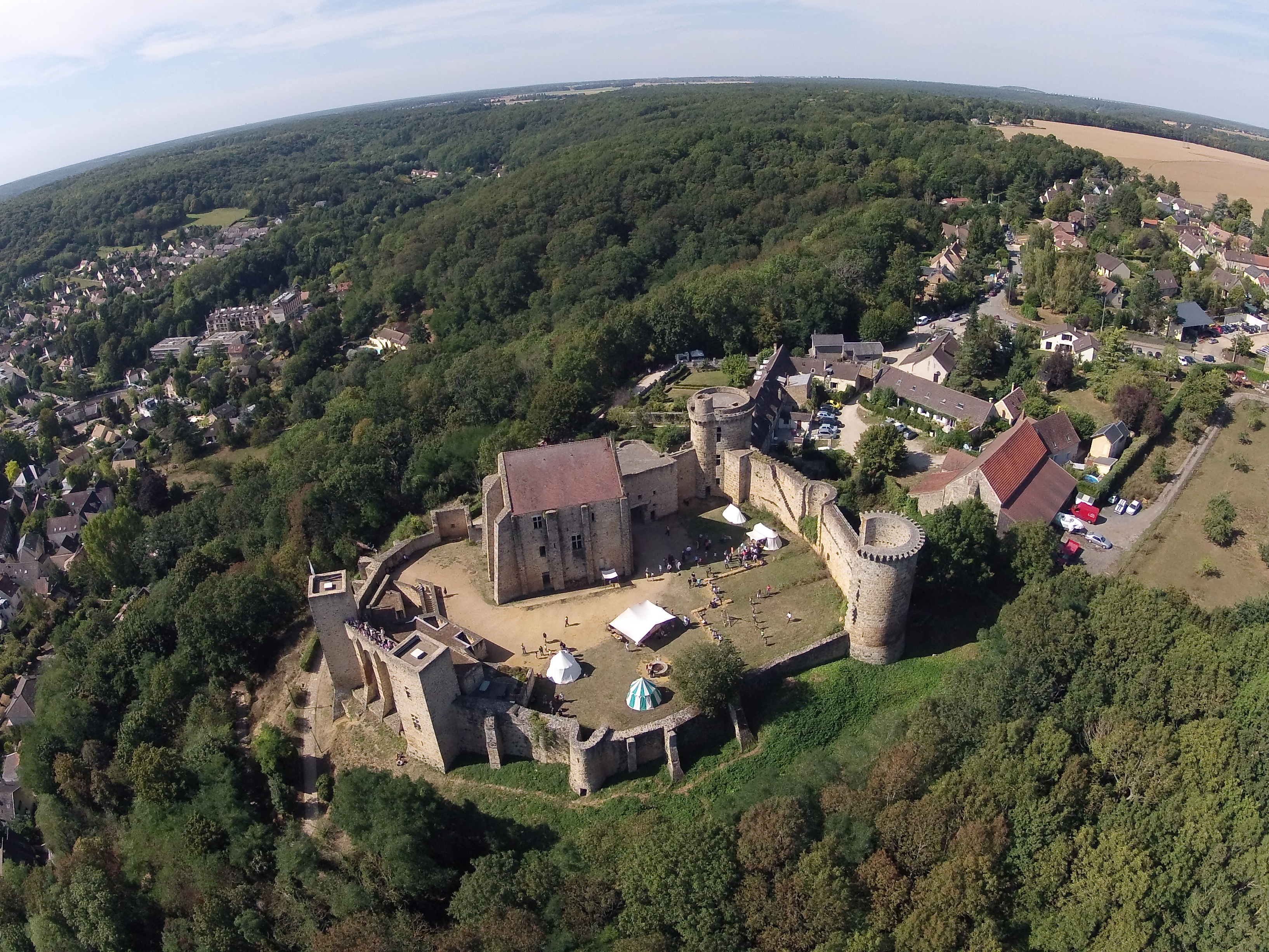 Photo réalisée le 16/09/2012 lors des journées du patrimoine